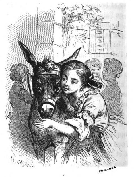 Illustration for "Mémoires d'un âne" of the Countess of Ségur